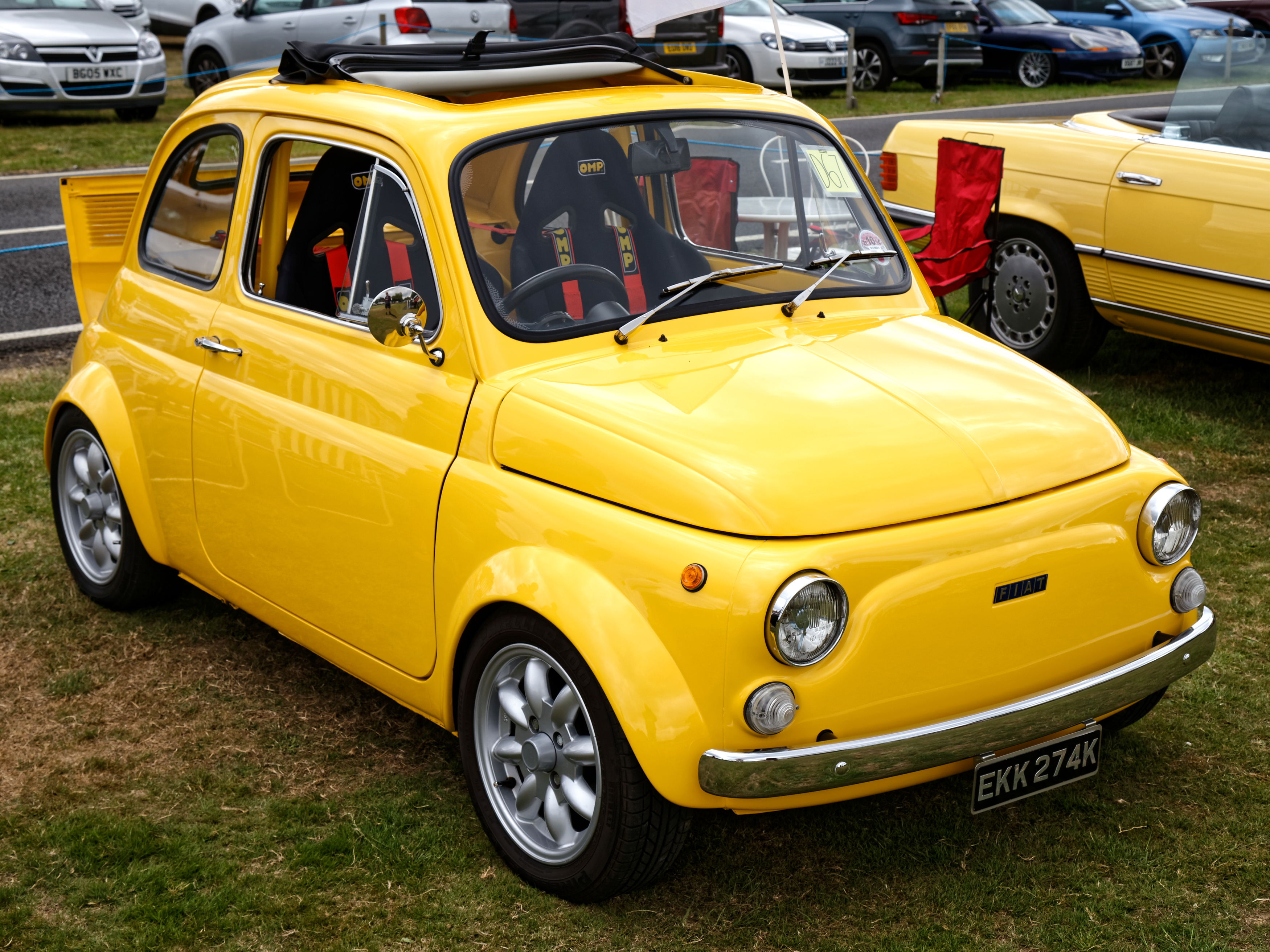 1972 FIAT 500 L at Hatfield Heath Festival 2017, on Hatfield Heath village green, Essex, England.Camera: Canon EOS 6D with Canon EF 24-105mm F4L IS USM lens.Software: RAW file lens-corrected, optimized and converted to JPEG with DxO OpticsPro 11 Elite, and likely further optimized and/or cropped and/or spun with Adobe Photoshop CS2.